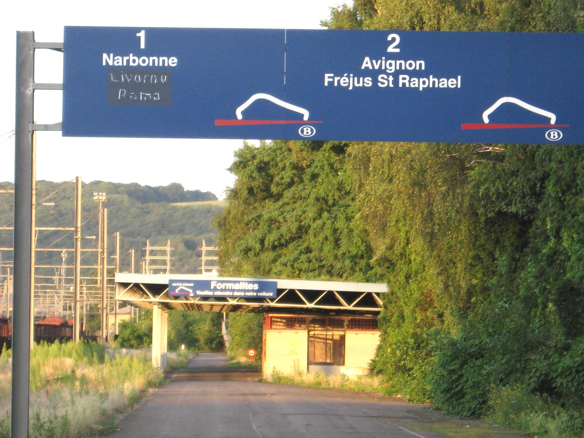 Former station for car sleeper trains in Bressoux, Liège, Belgium